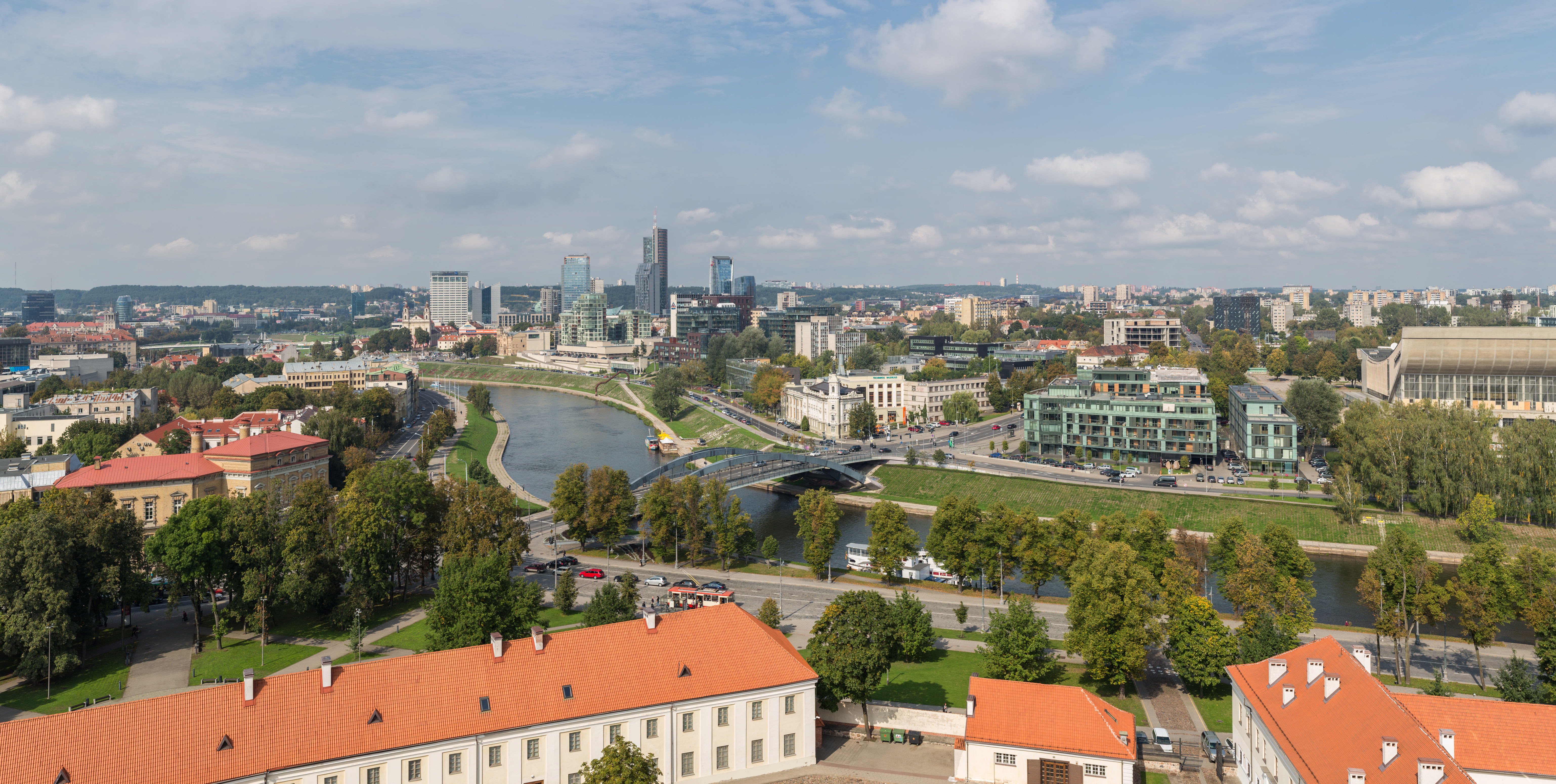 The modern skyline of Vilnius, Lithuania, as viewed from Gediminas' Tower looking north-west.